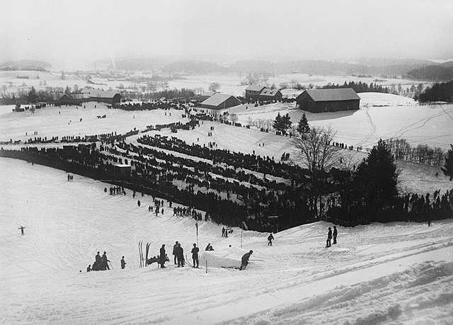 Husebybakken ski jumping hill in Oslo, Norway